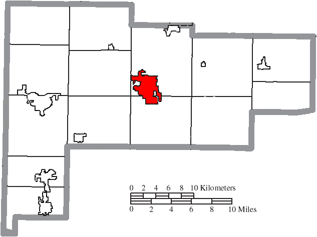 Map of the municipal and township boundaries of Auglaize County, Ohio, United States, as of the 2000 census, with the location of the city of Wapakoneta highlighted. Township borders are shown only in unincorporated areas in order to differentiate incorporated and unincorporated areas more clearly.